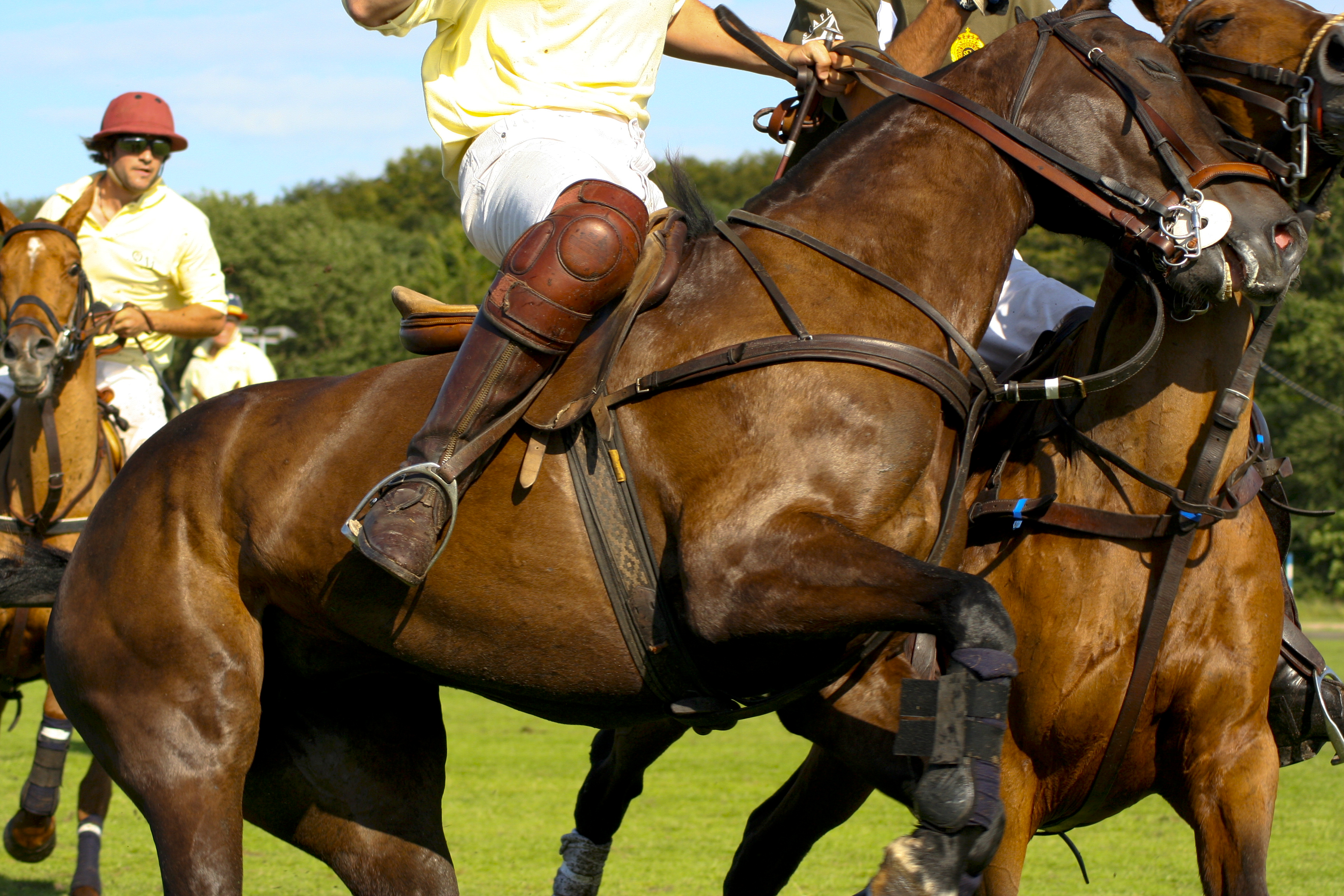 Polo Match